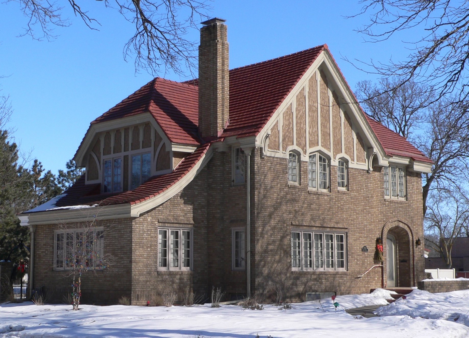 H.E. Snyder House at 2522 16th Street in Columbus, Nebraska; seen from the southwest. The building was constructed in 1928, and is listed in the National Register of Historic Places.